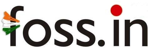 The FOSS.IN logo, created by Harikrishnan C.